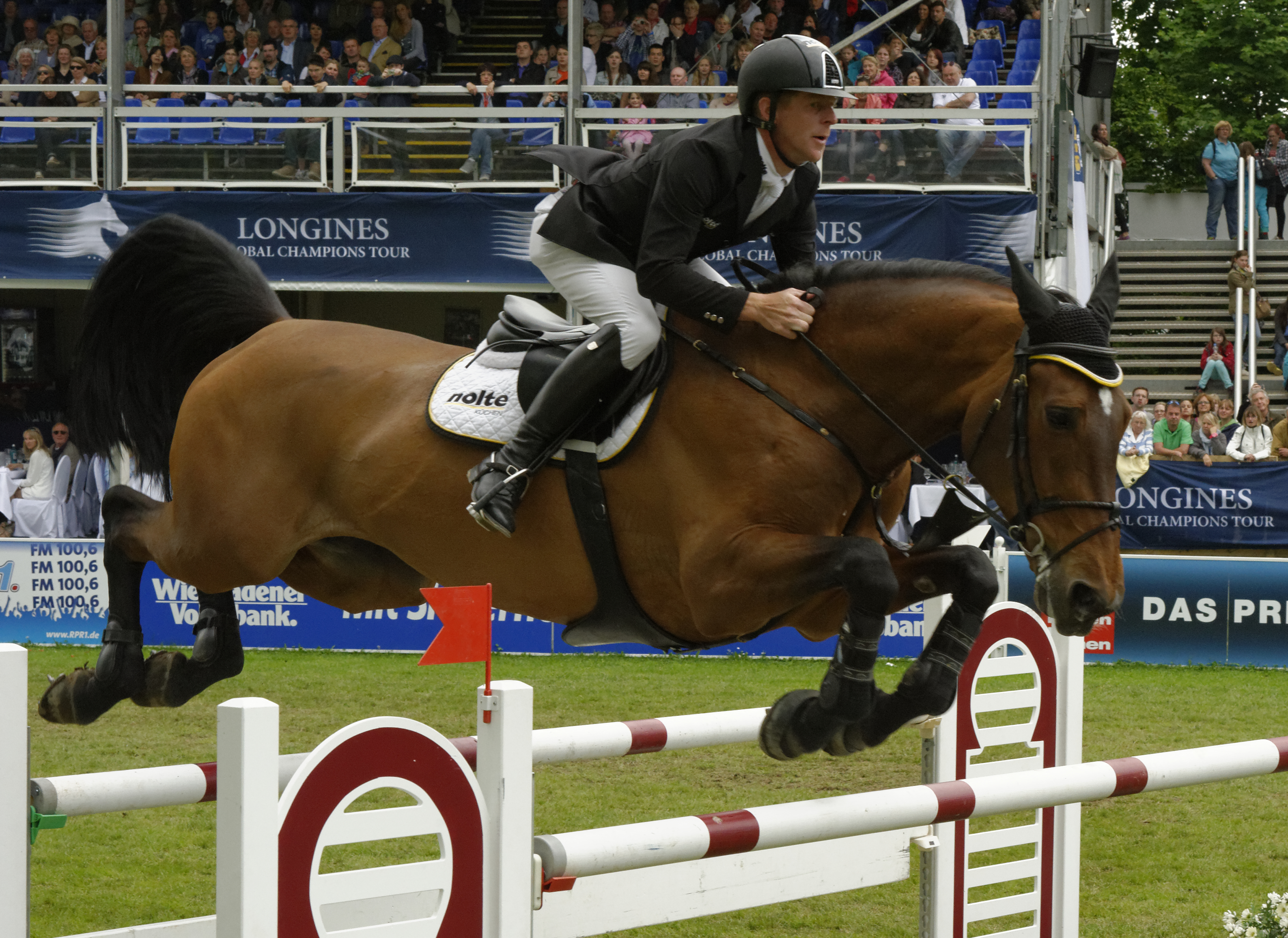 Internationales Pfingstturnier Wiesbaden 2013 The making of this document was supported by the Community-Budget of Wikimedia Germany.